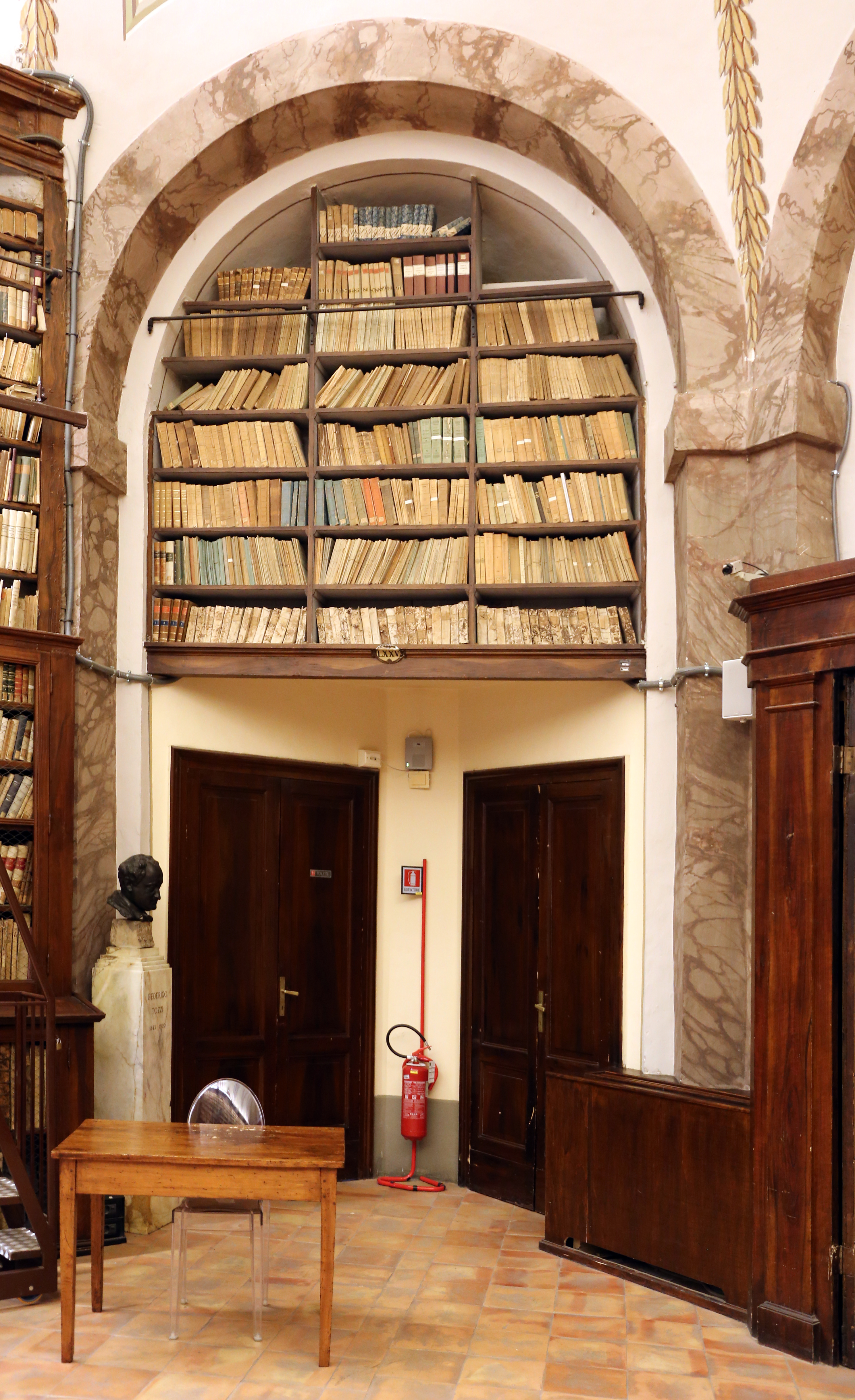 Biblioteca Comunale degli Intronati